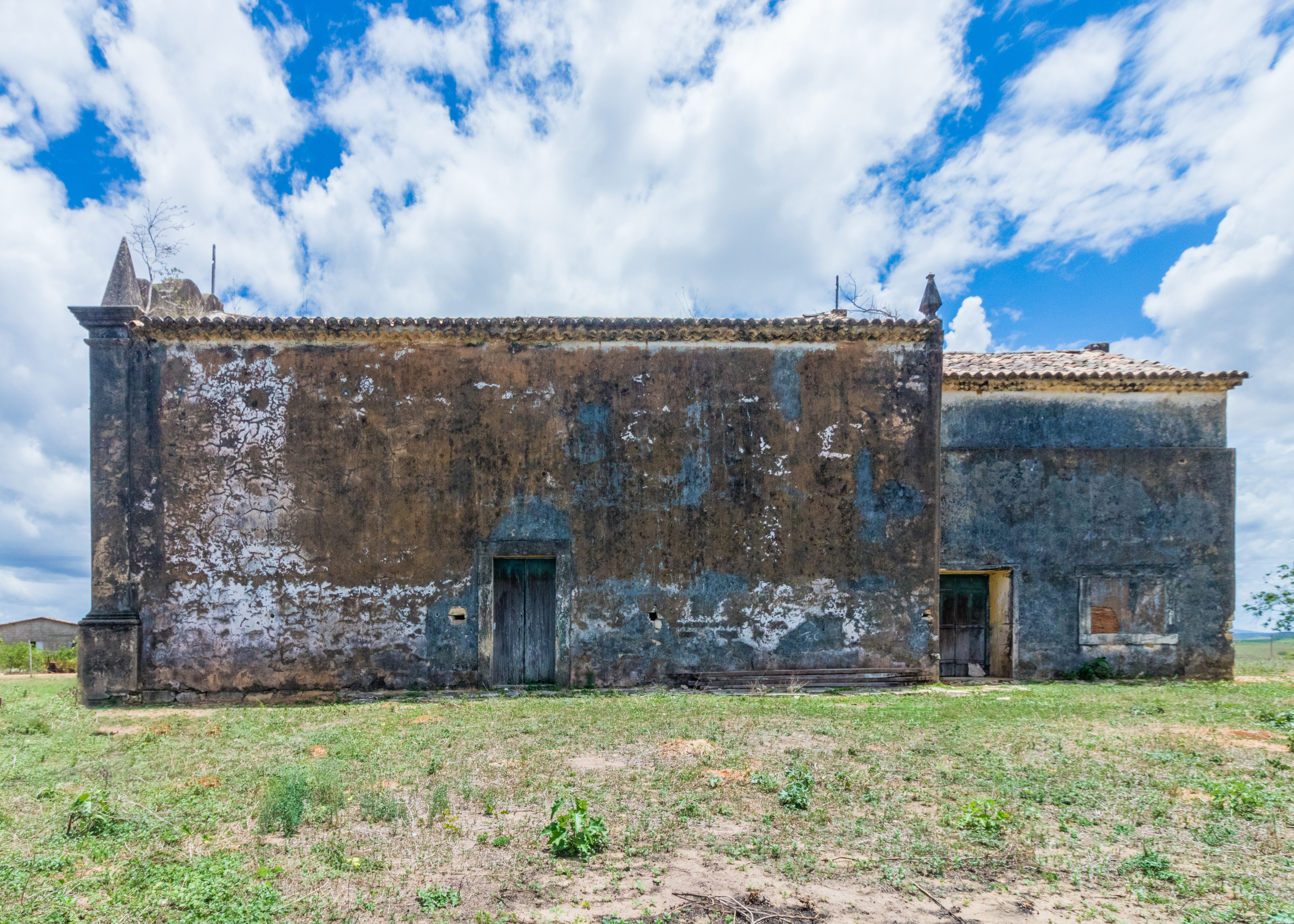 East elevation of Chapel of Our Lady of the Conception of Engenho Poxim, São Cristovão, Sergipe, Brazil.